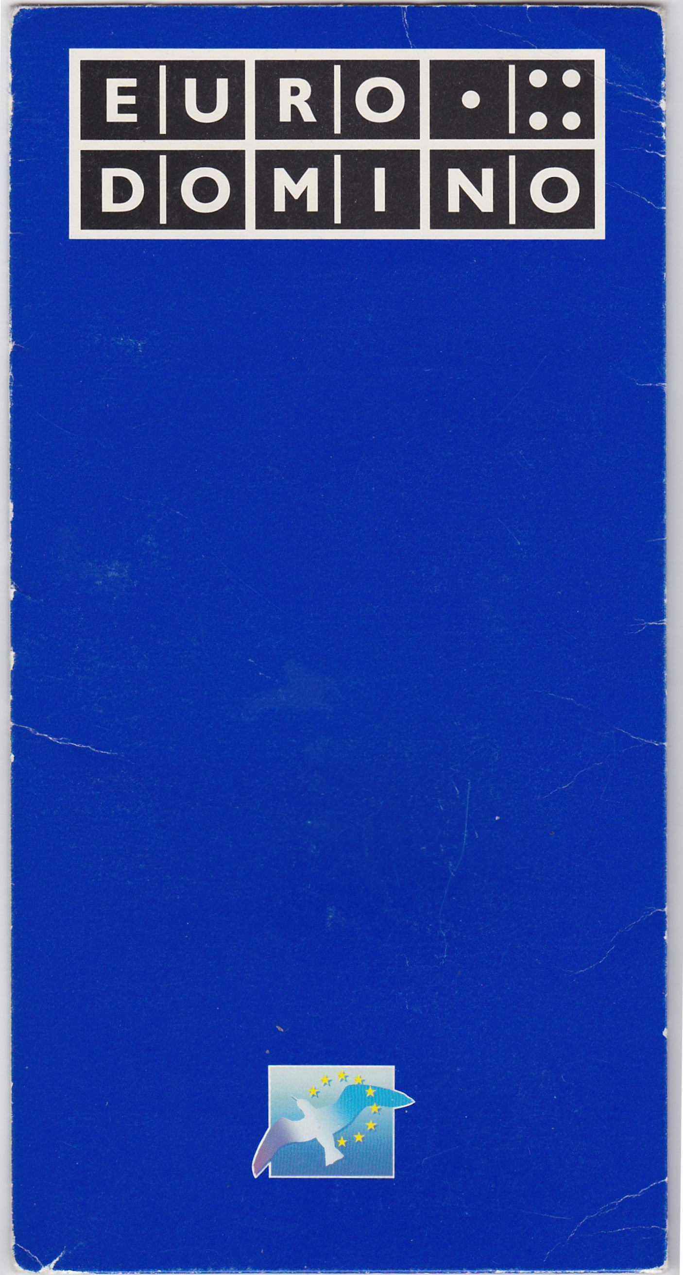 Euro Domino folder for railway tickets; received most likely at Salzburg main station in 2005 approx.